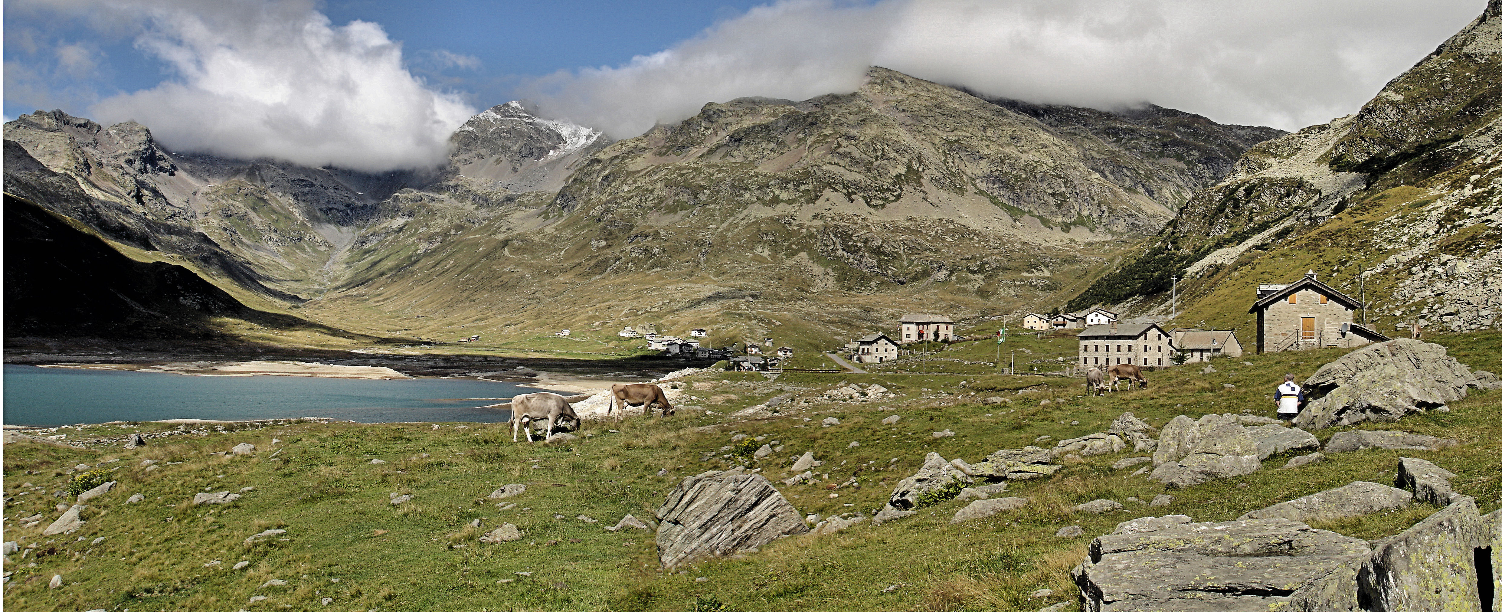 Montespluga village and lake